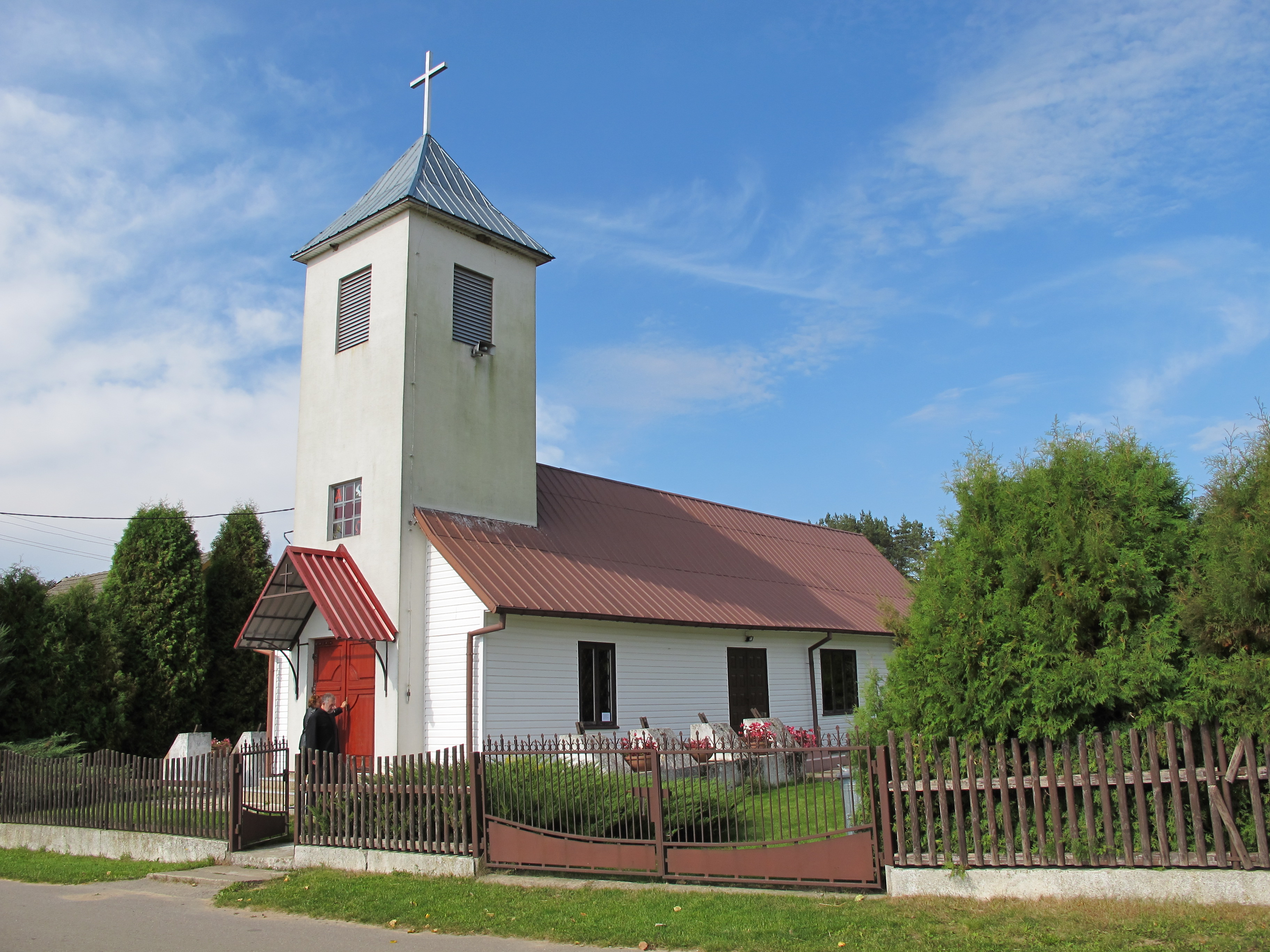 Saint Roch church in Janowszczyzna, gmina Sokółka, podlaskie, Poland